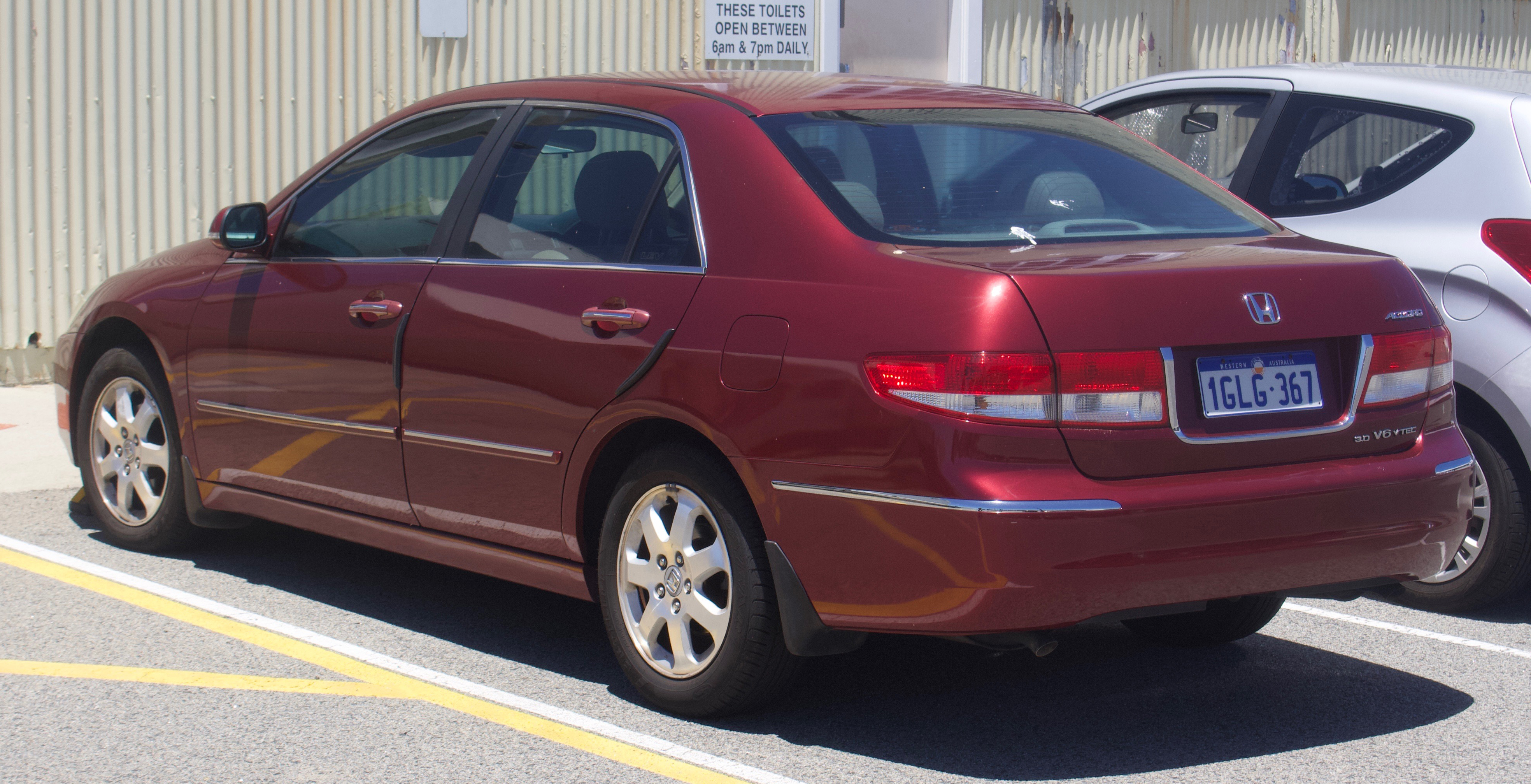 2004 Honda Accord V6L sedan. Photographed in Fremantle, Western Australia, Australia.